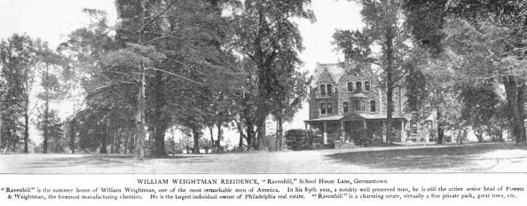 "Ravenhill" (William Weightman mansion), School House Lane, Germantown, Philadelphia, Willis G. Hale, architect.